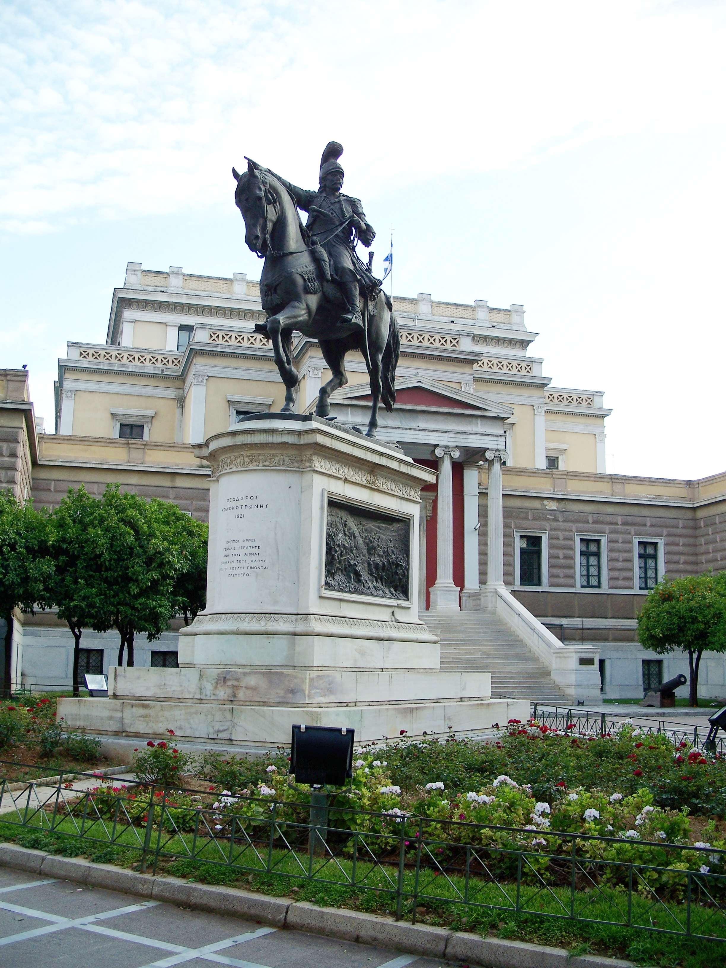 Statue of Theodoros Kolokotronis (Θεόδωρος Κολοκοτρώνης) In Athens, front of old parliament. Work of sculptor Lazaros Sochos (1862 - 1911.